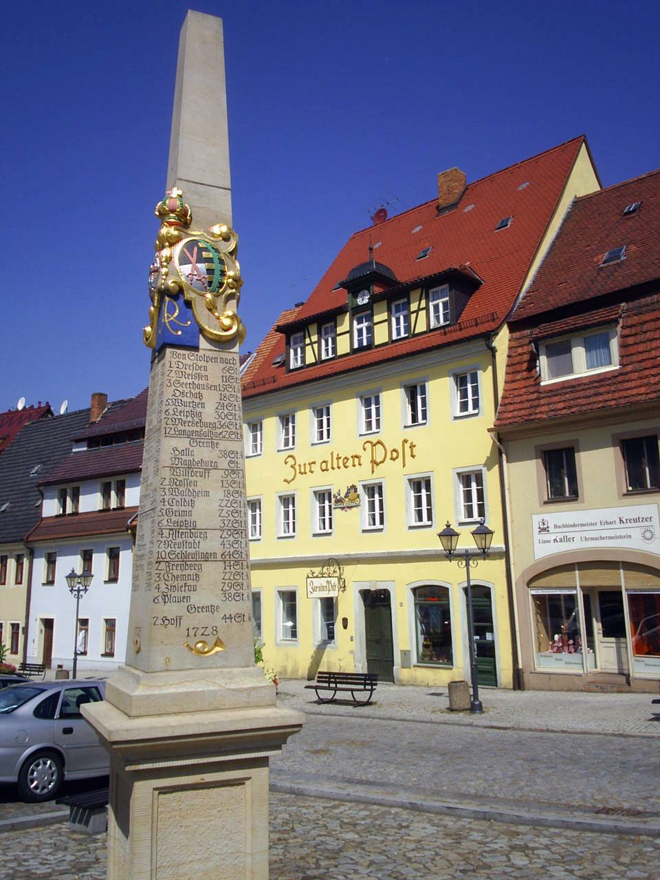 Saxon Milestone in Stolpen, Saxony, Germany